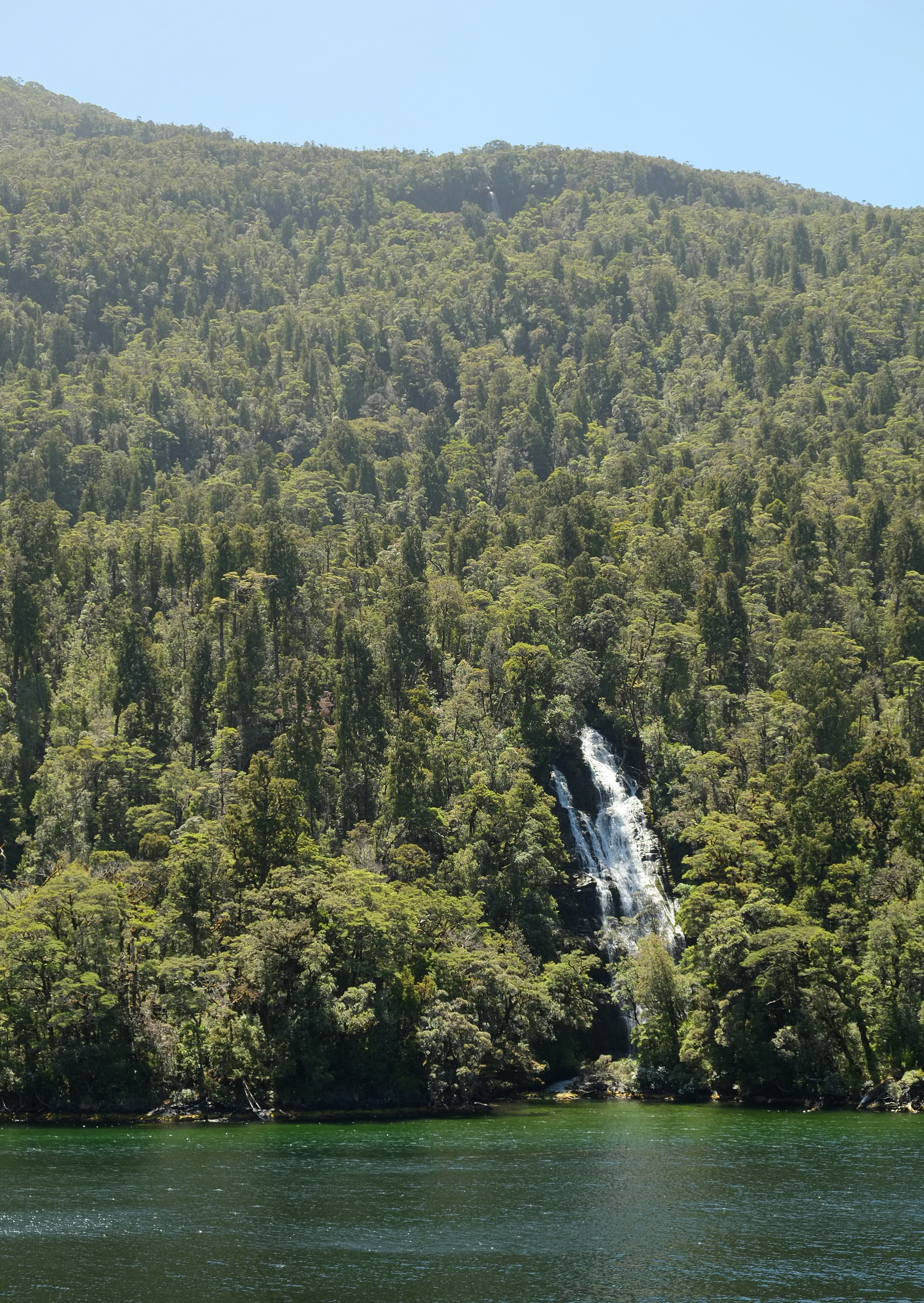 Waterfall into Blanket Bay on the south coast of Secretary Island (outer Doubtful Sound)